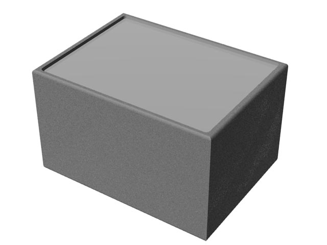 Flat roof